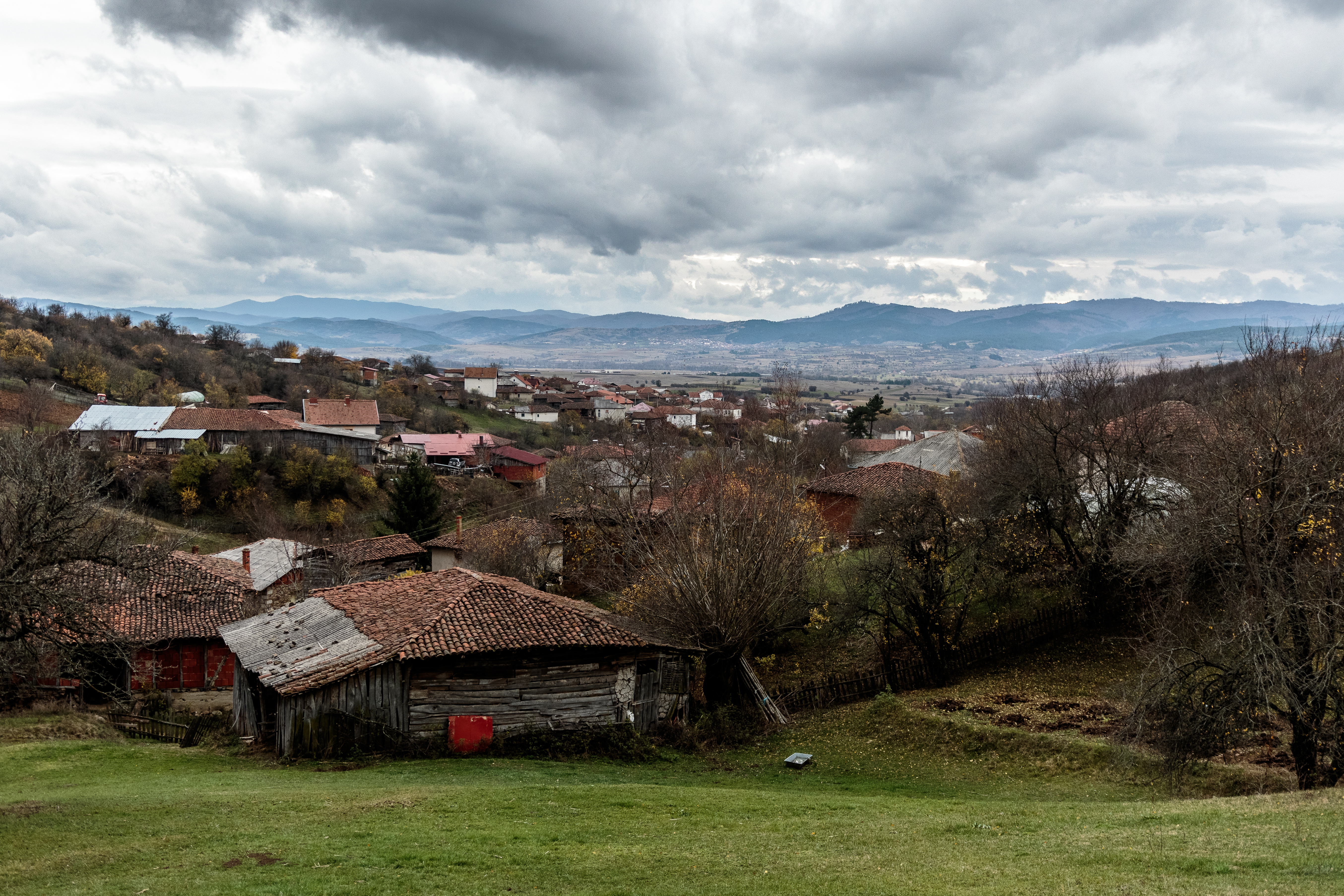 Panoramic view of the village of Robovo, Maleševija, Macedonia